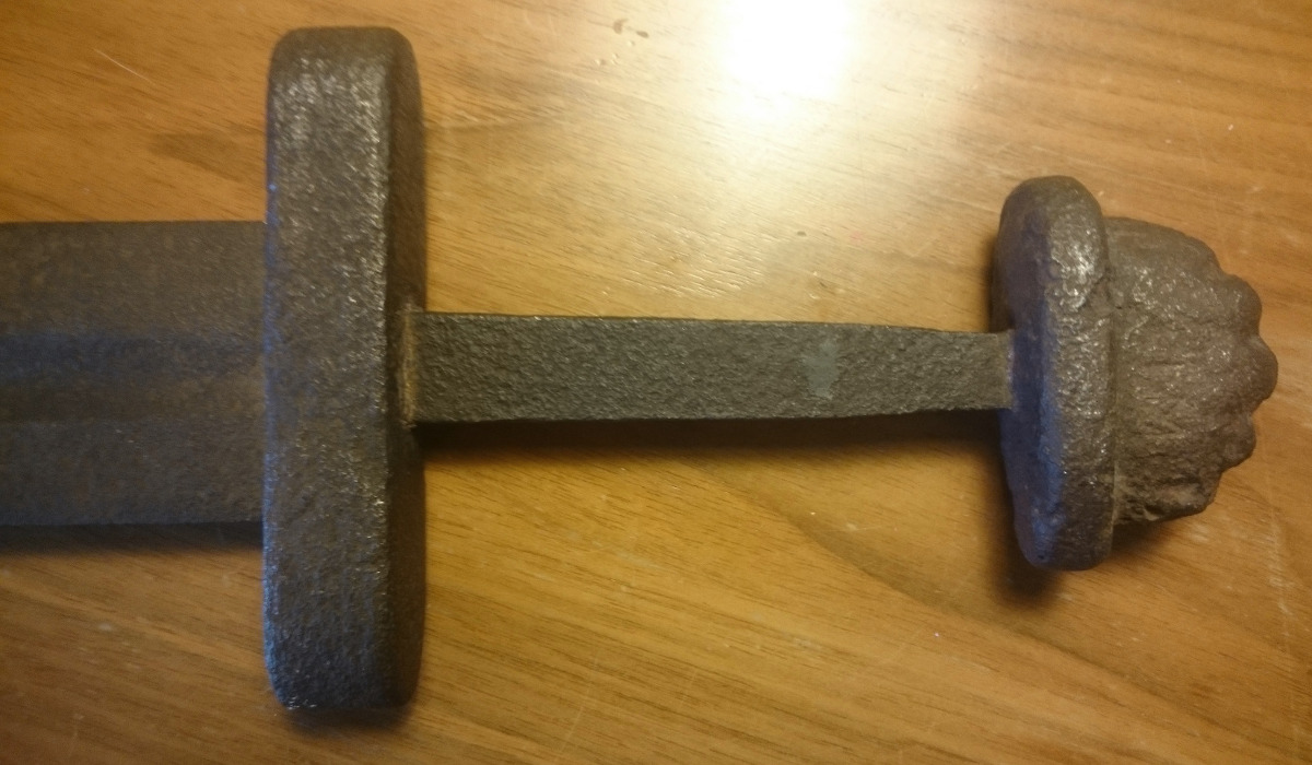 Frankish sword of the 10th century, found in Trier, formerly of the collection of Major H. Galopin of Geneva. Closeup of the hilt section. Literature: Notes sur la collection d'armes anciennes du major Henry Galopin, Genève (1913), planche 8, no. 1. Galopin noted "runic characters" in the pommel, visible in the form of a letter M in this image (there is no reason to assume it represents an actual rune rather than a Latin M, as according to Galopin the sword was found in Trier and not in Scandinavia)